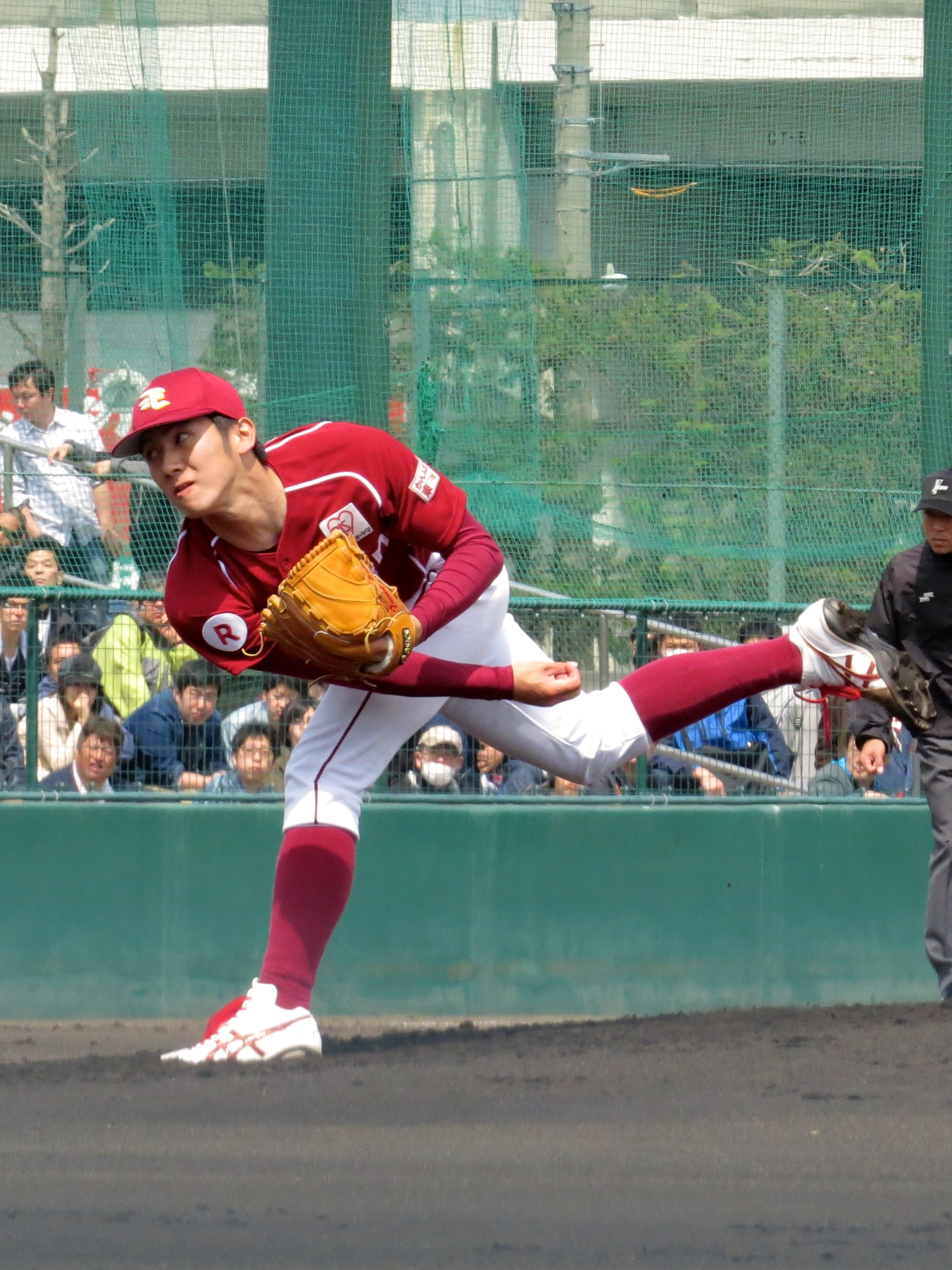 Fumiya Ono, pitcher of the Tohoku Rakuten Golden Eagles, at Lotte Urawa Baseball Ground.